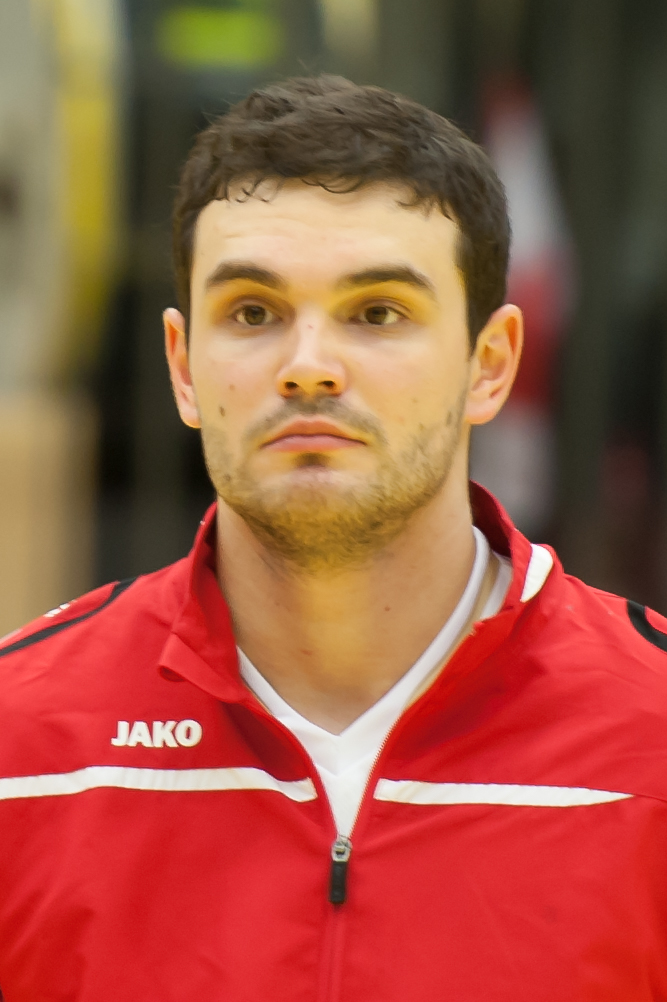 Friendly match Austria - Switzerland 2015-01-06 at Tulln, Austria